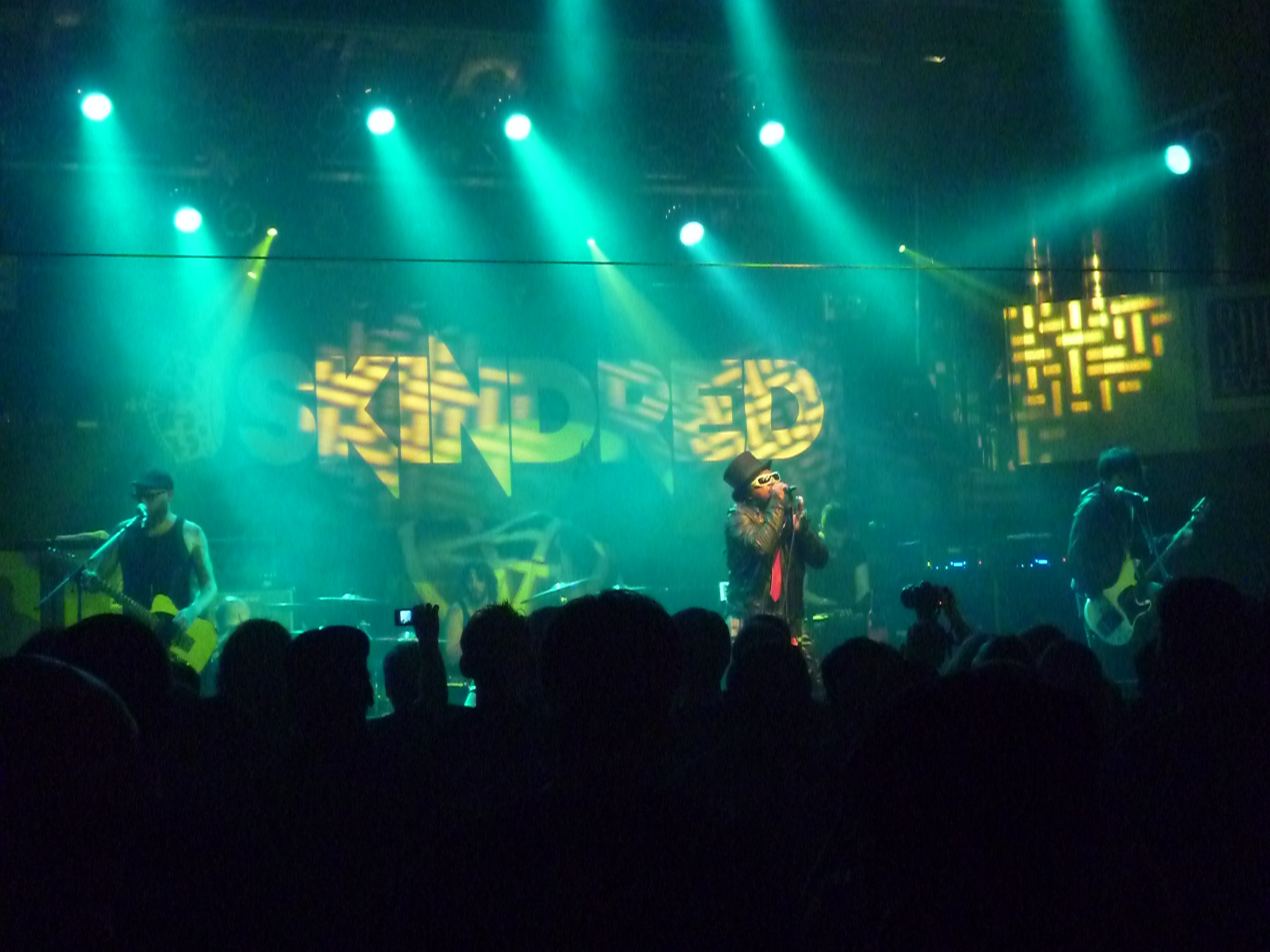 Skindred live at the Garage Saarbrücken